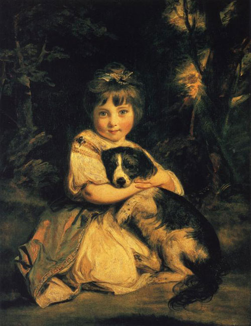 Miss Bowles. Wallace Collection, London. Size: 2 ft. 11-1/2 in. by 2 ft. 3-3/4 in.